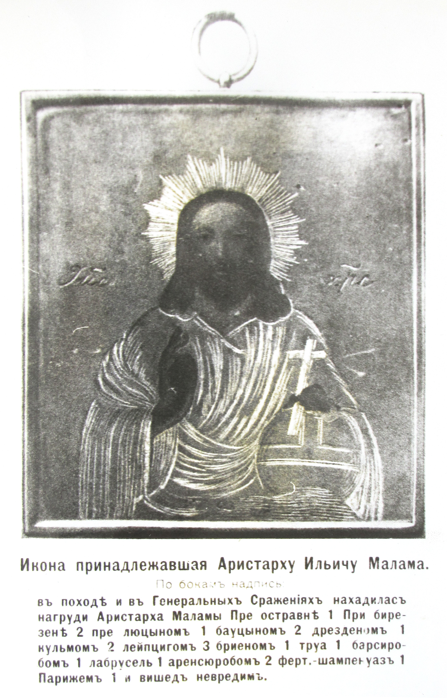 Icon of Aristarkh Il'ich Malama (front)